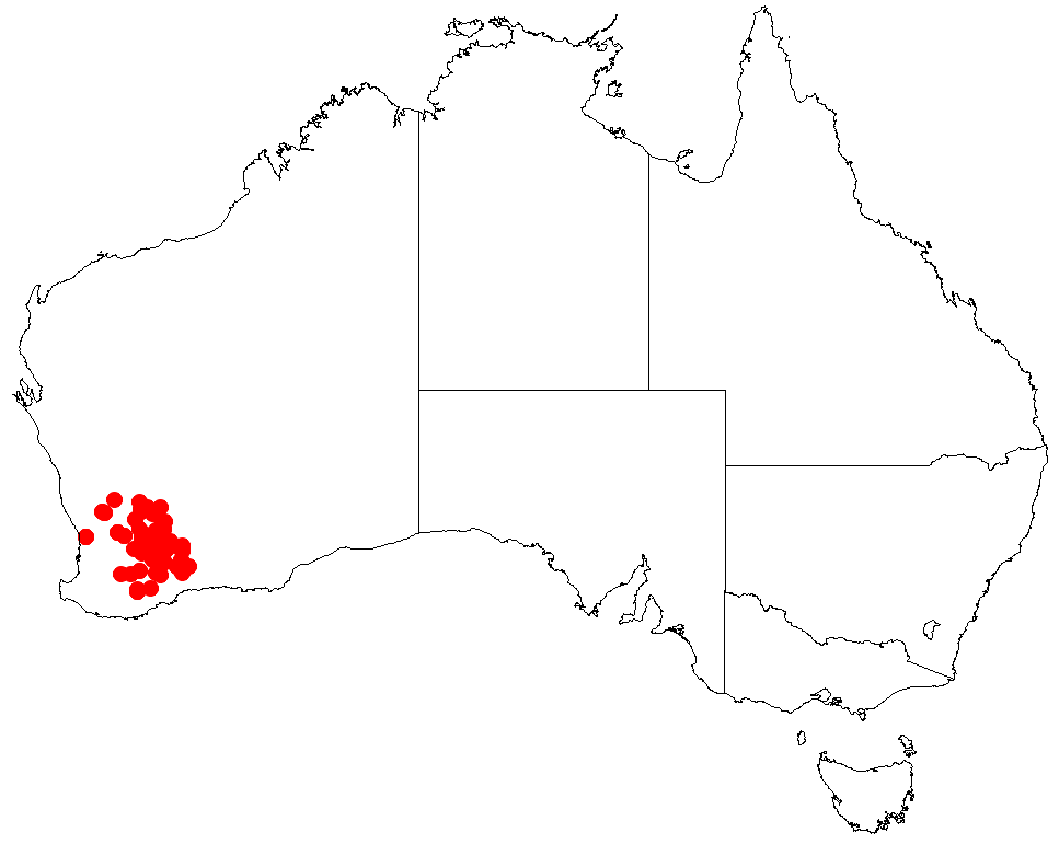 Acacia acutata Occurrence data from Australasia Virtual Herbarium downloaded from on 8 December 2018